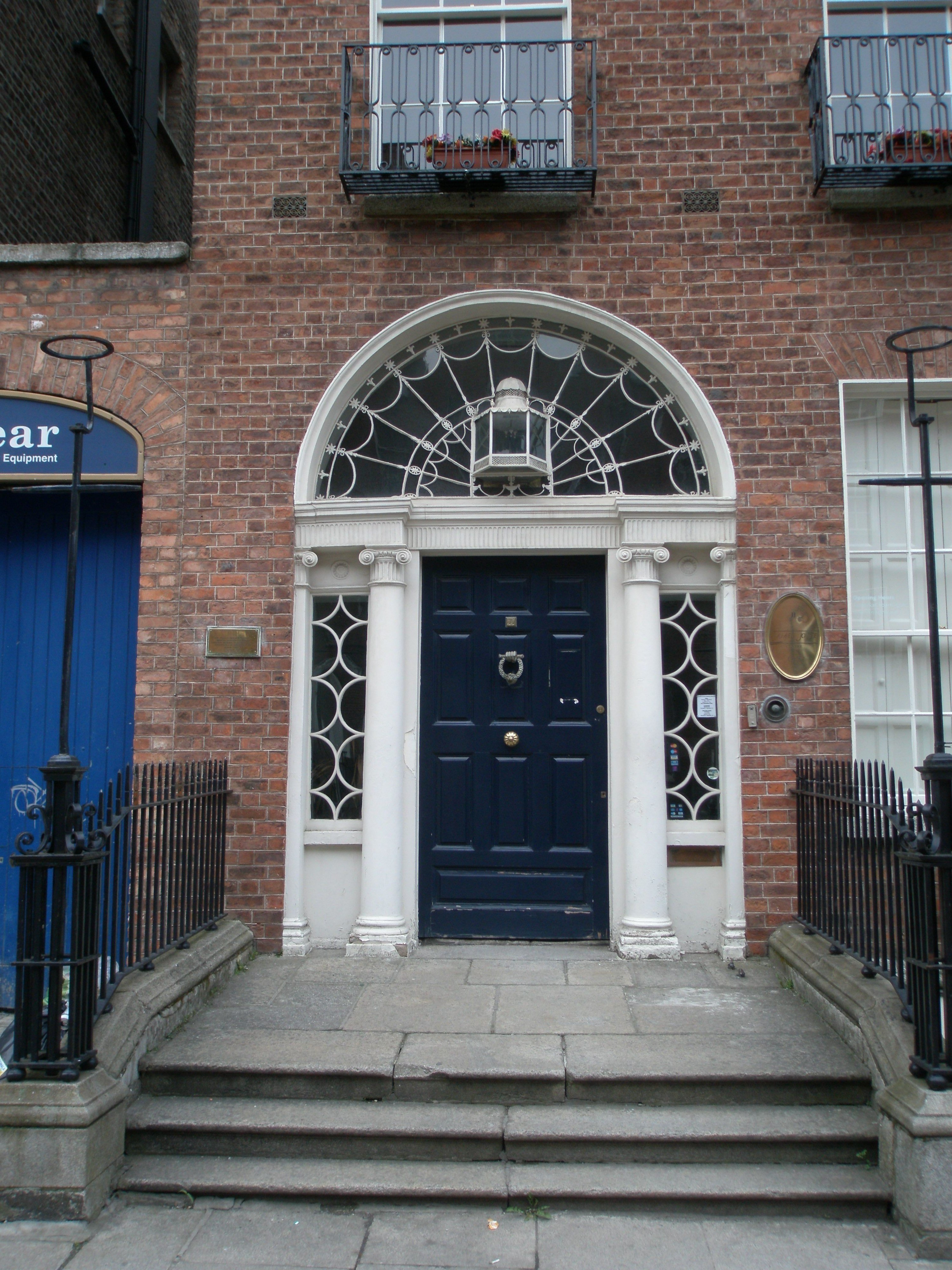 James Joyce Centre front, Dublin